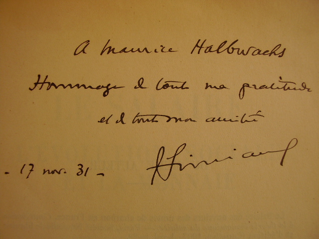 Signature of François Simiand on Le Salaire. L'évolution sociale et la monnaie, Paris, Alcan, 1932. This book was offered to Maurice Halbwachs and is now held in the Human and Social Sciences Library Paris Descartes-CNRS